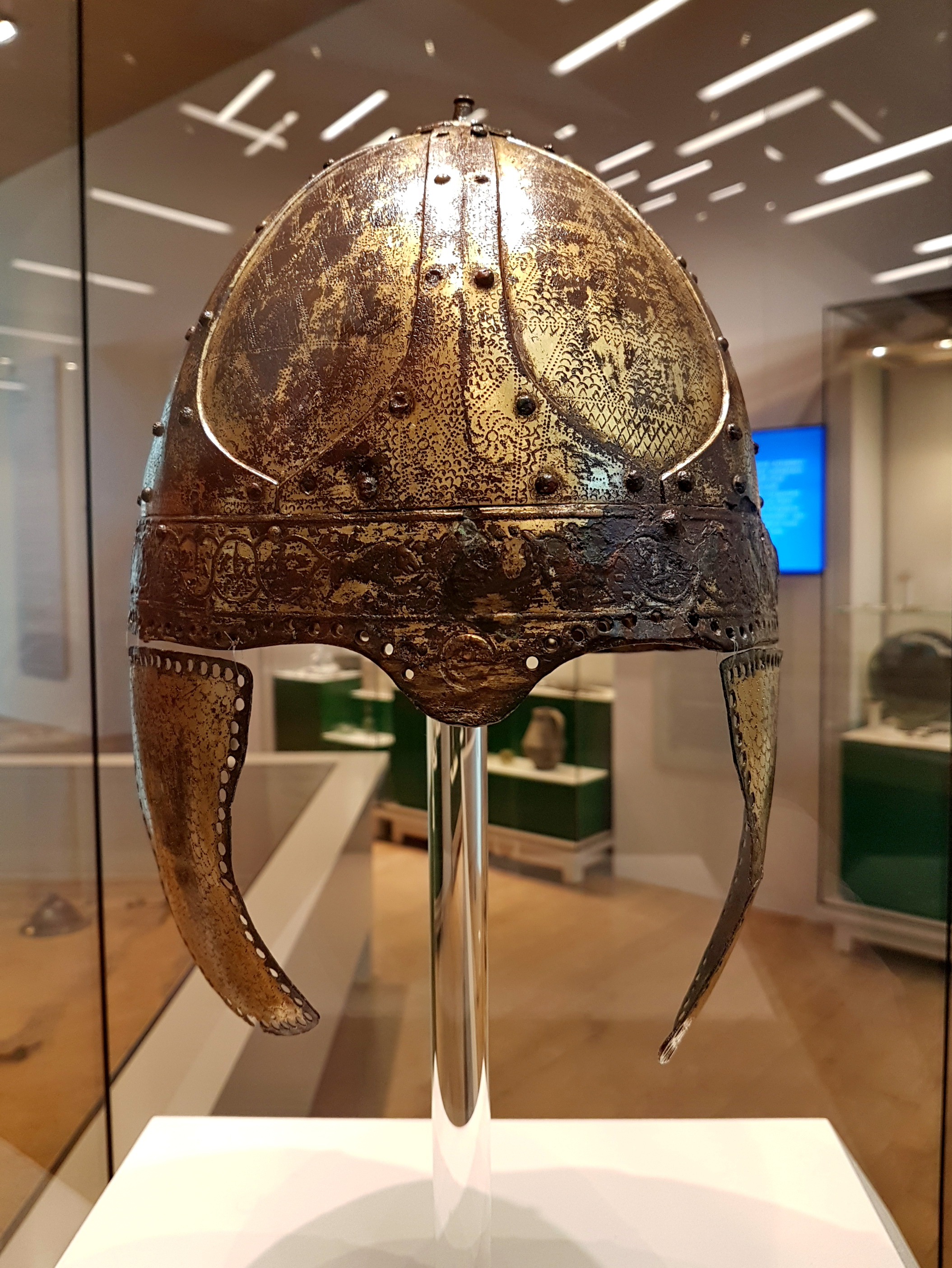 Frankish gilded helmet (late 6th c. AD) from a grave excavated in 1955 in Morken-Kirchberg (Bedburg, NRW), now in the Rheinisches Landesmuseum in Bonn, Germany. The quality of the artefacts indicate that this was a high-ranking warrior.